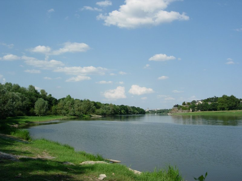 La Maine en aval d'Angers Author: Denis Pithon